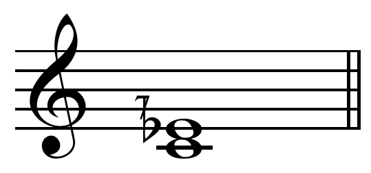 Septimal minor third on C = E♭ (Ben Johnston's notation). 7:6 = 266.87 cents. Limit: 7-limit.